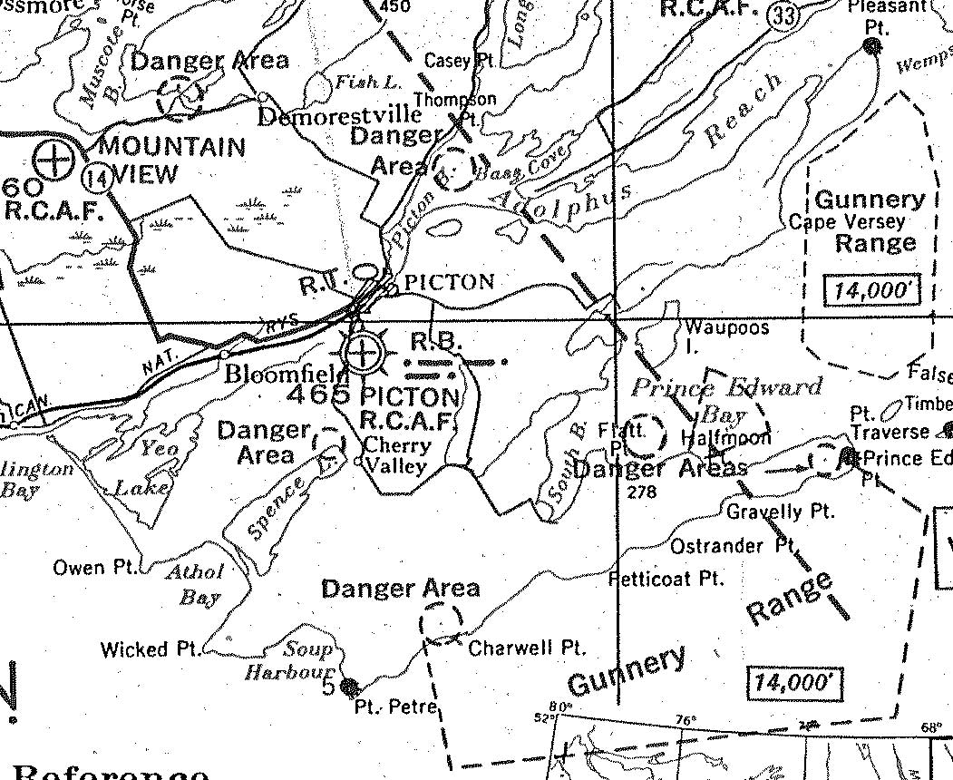 Piece of the 1943 Toronto-Ottawa Air Navigation Chart showing RCAF Station Mountain View and some of the associated bombing and gunnery ranges.